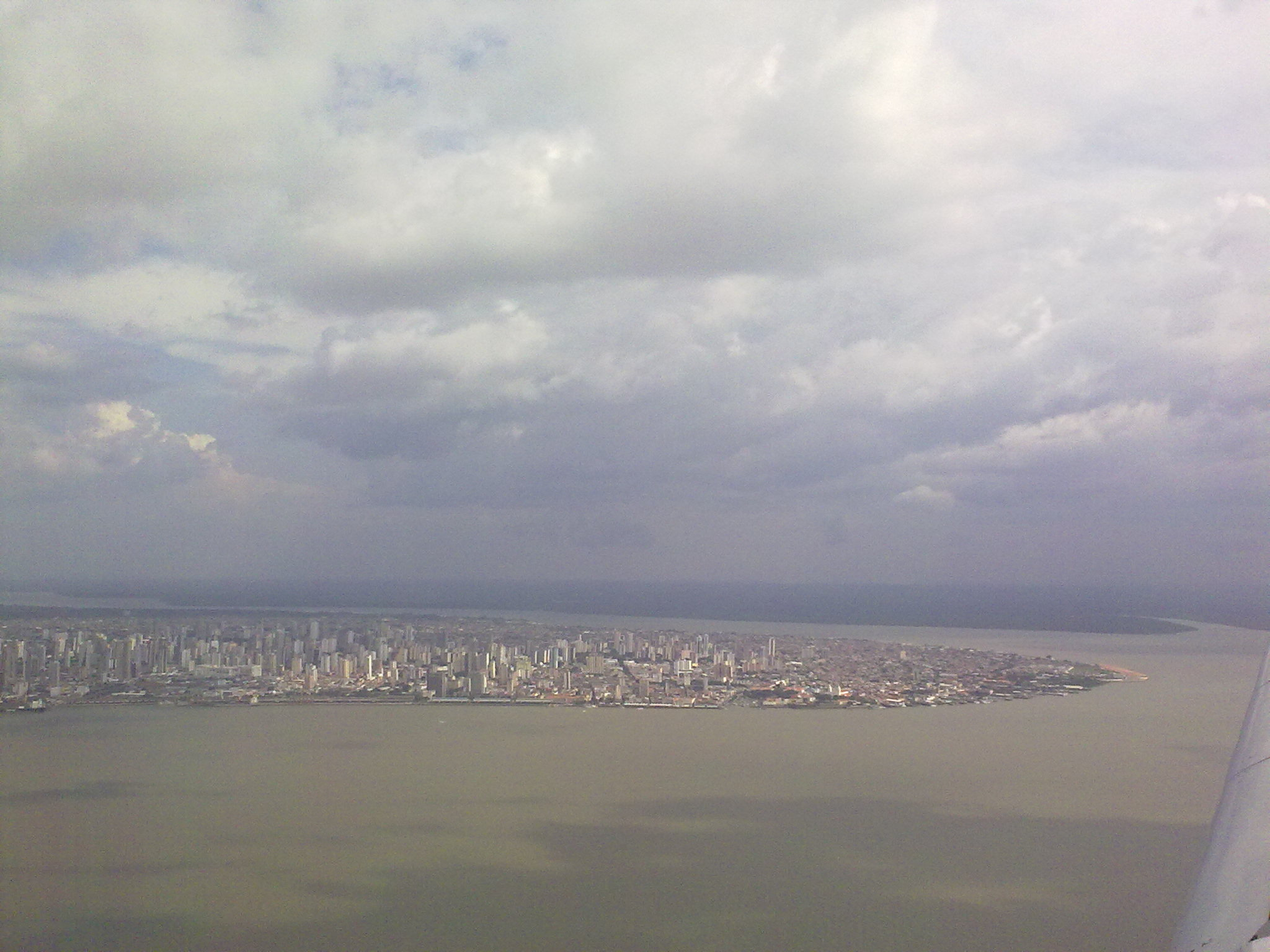 Belém, Pará, Brazil